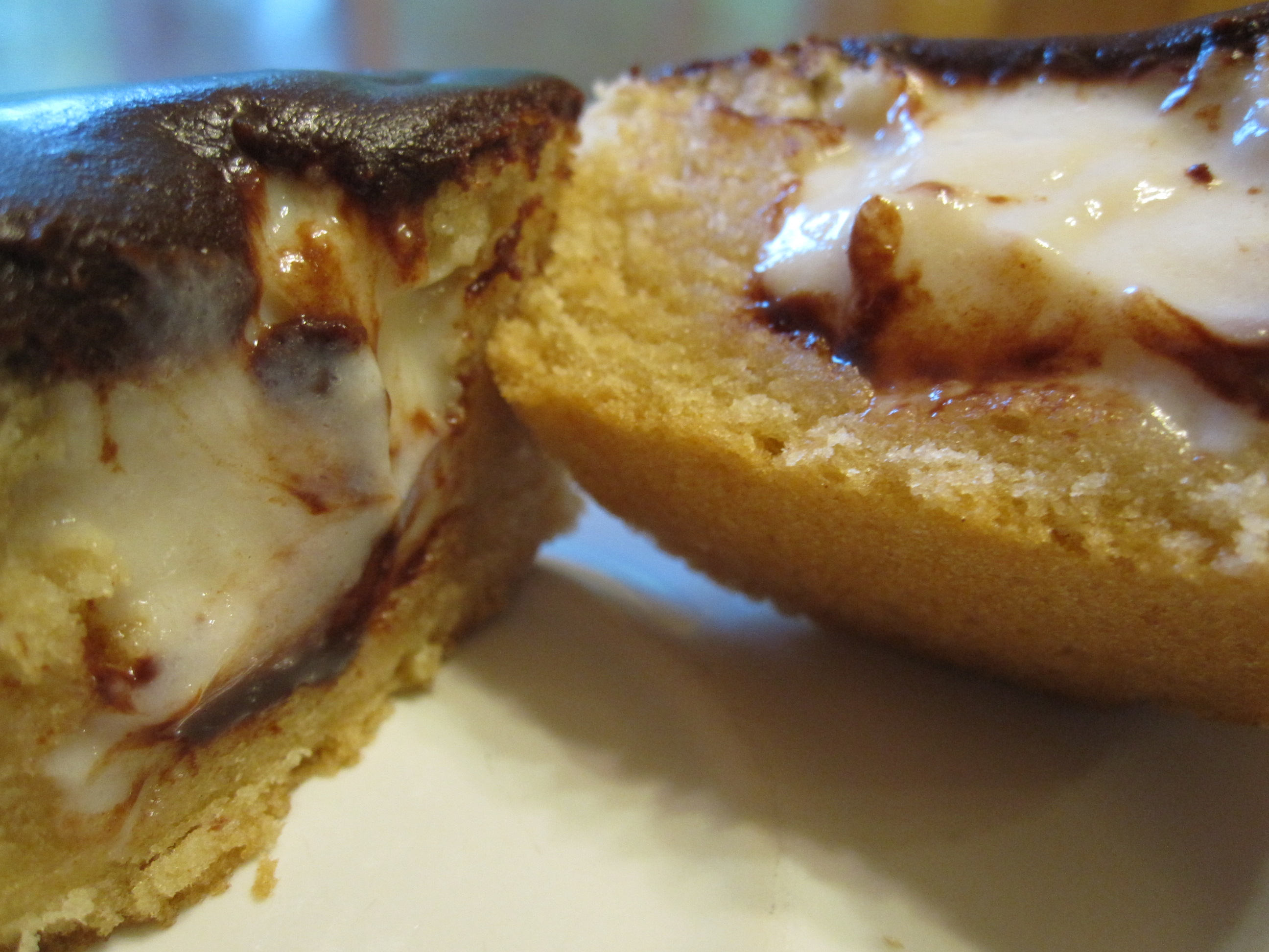 They are little Boston cream pie cupcakes!